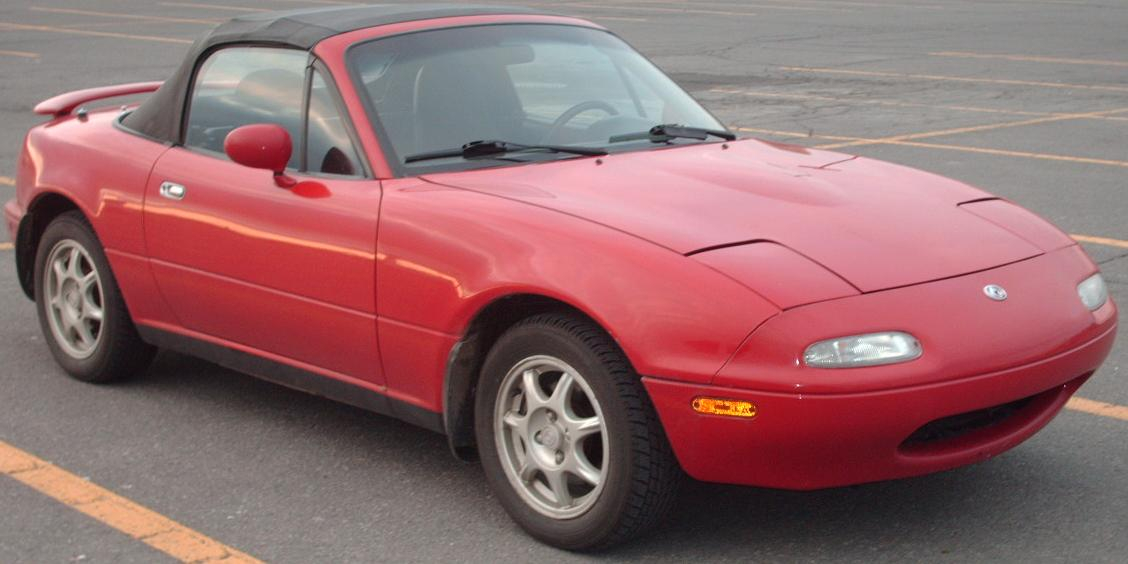 1993-1997 Mazda Miata photographed in Montreal, Quebec, Canada.